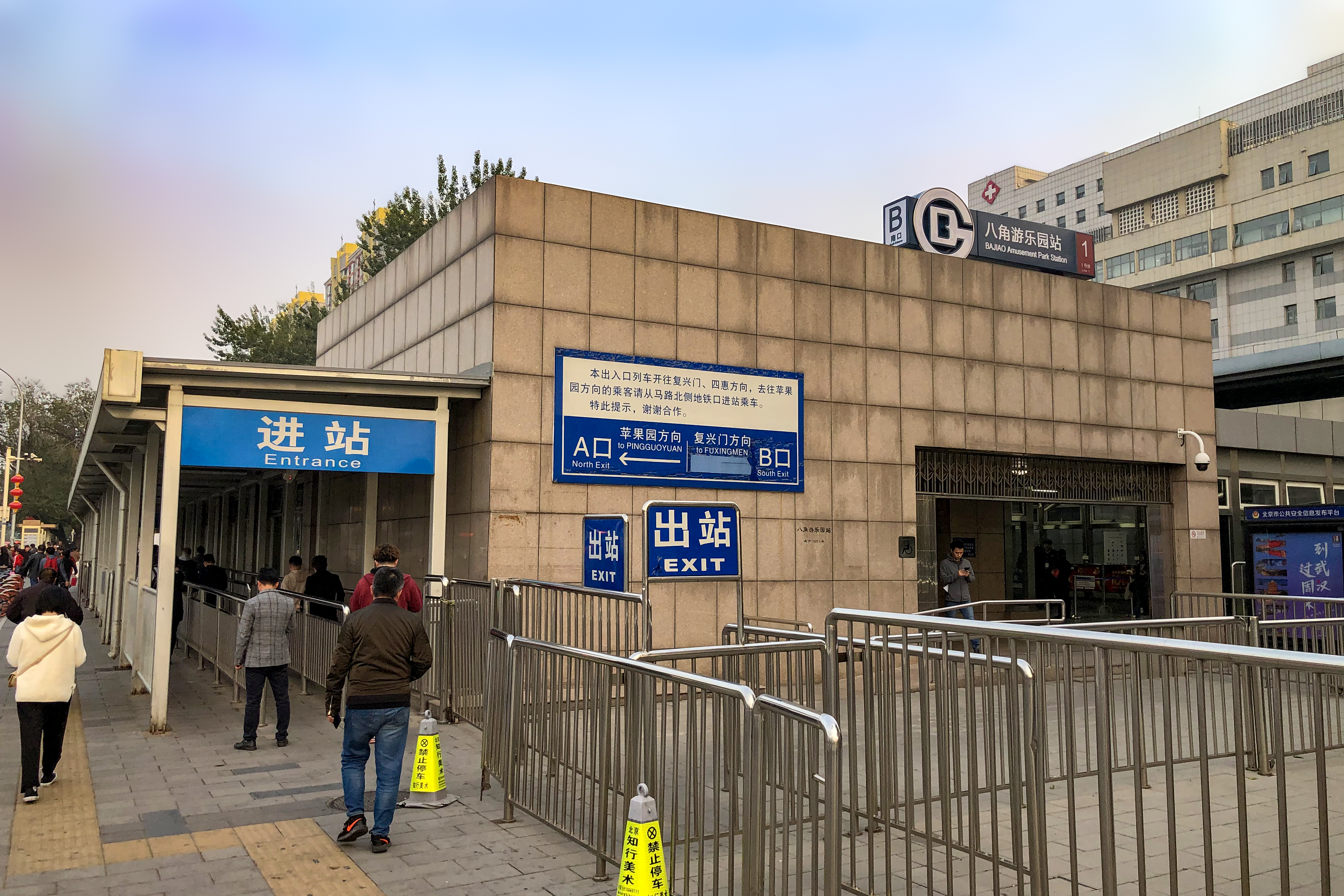 For eastbound trains only.